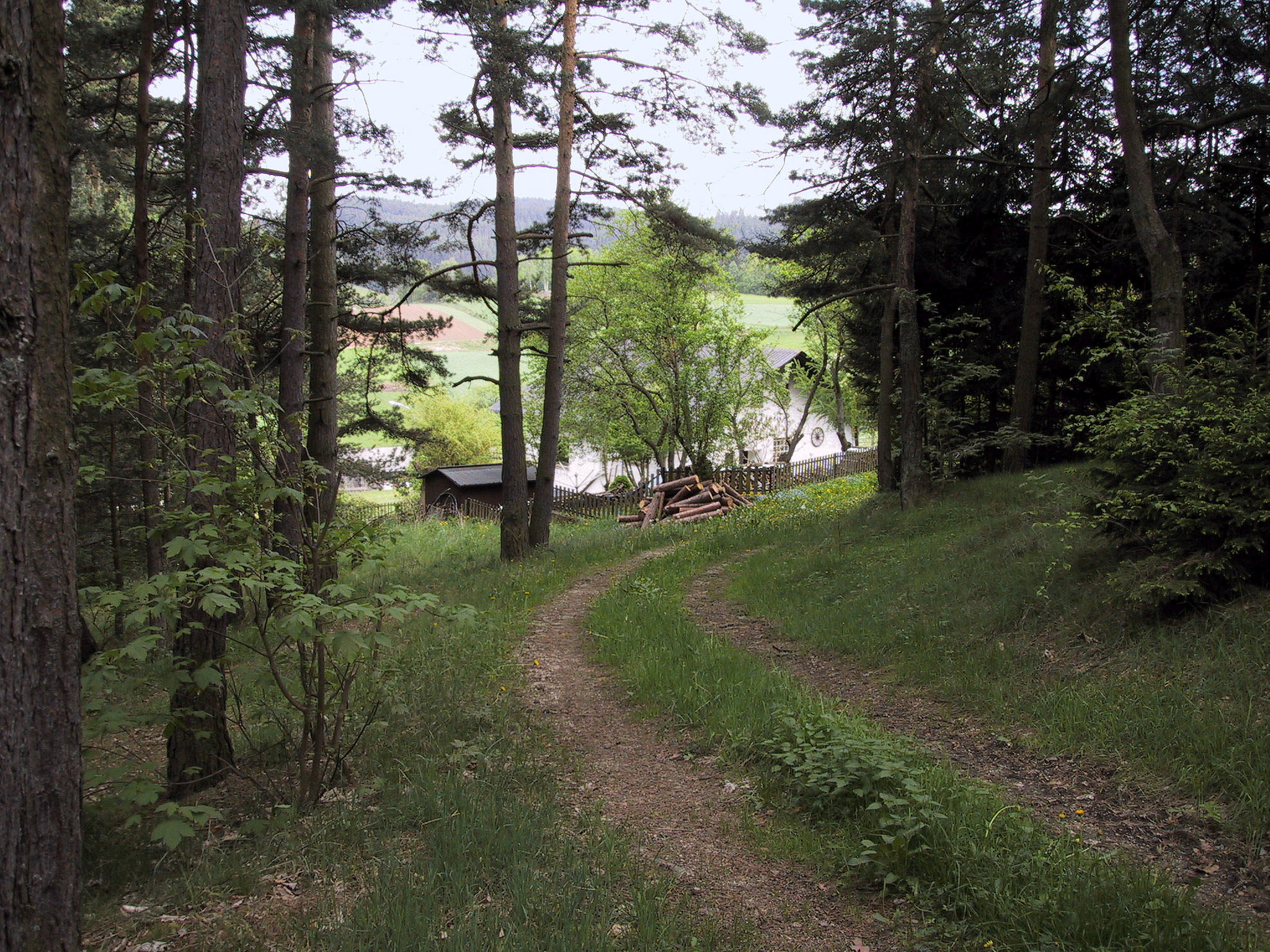 Forest around Riebeis.